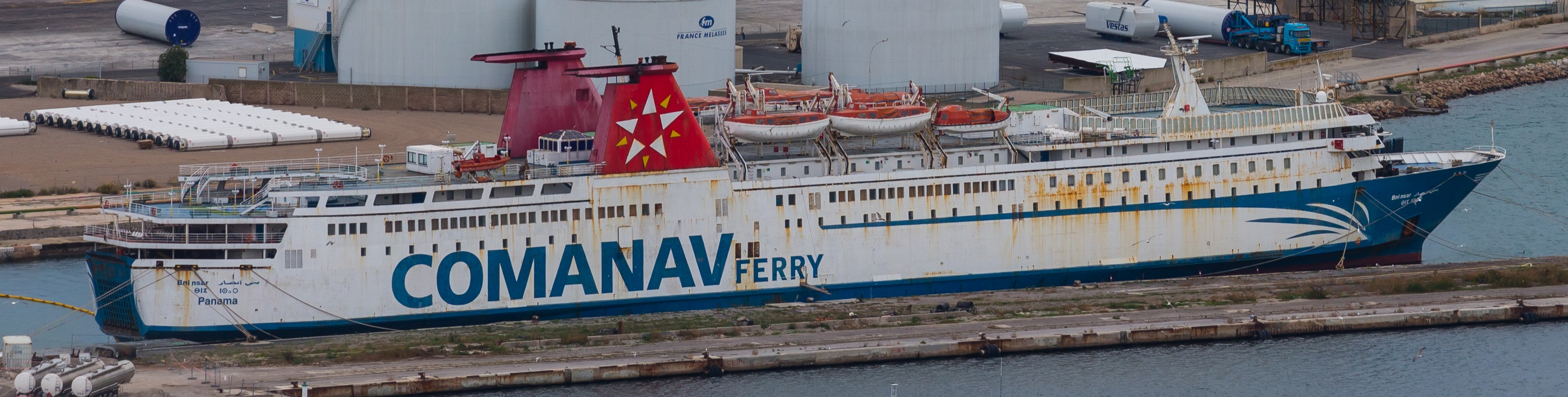 The ferry Bni Nsar detained at Sète on November 10, 2013.